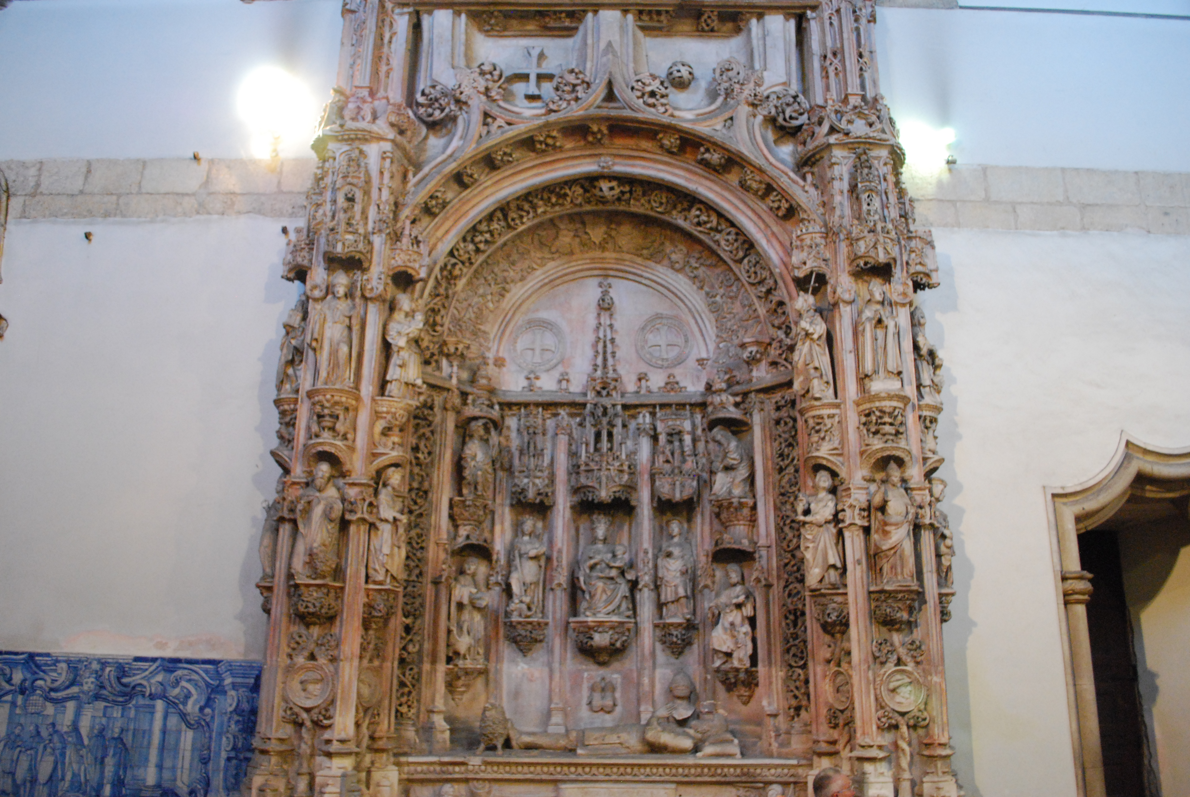 This file was uploaded for Wiki Loves Monuments in Portugal with the unique identifier 69813.